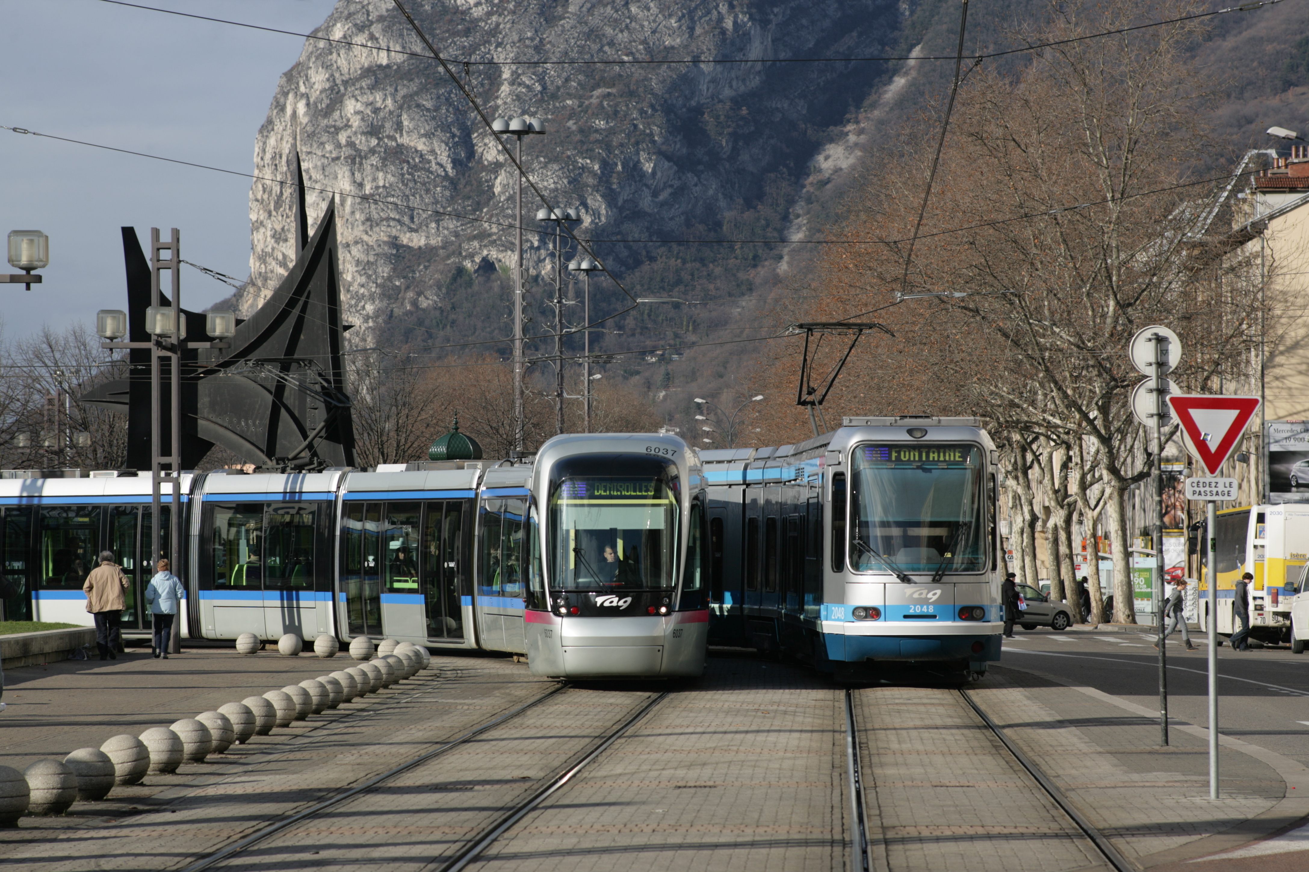 Two tramways are crossing in front of Grenoble railway station.